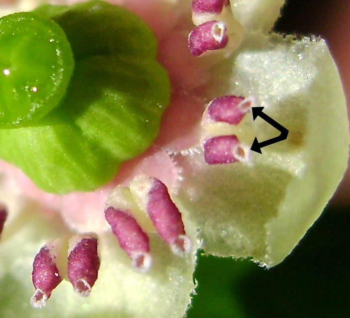 Chimaphila umbellata laminar stamens and poricide dehiscence anthers (pores signaled)